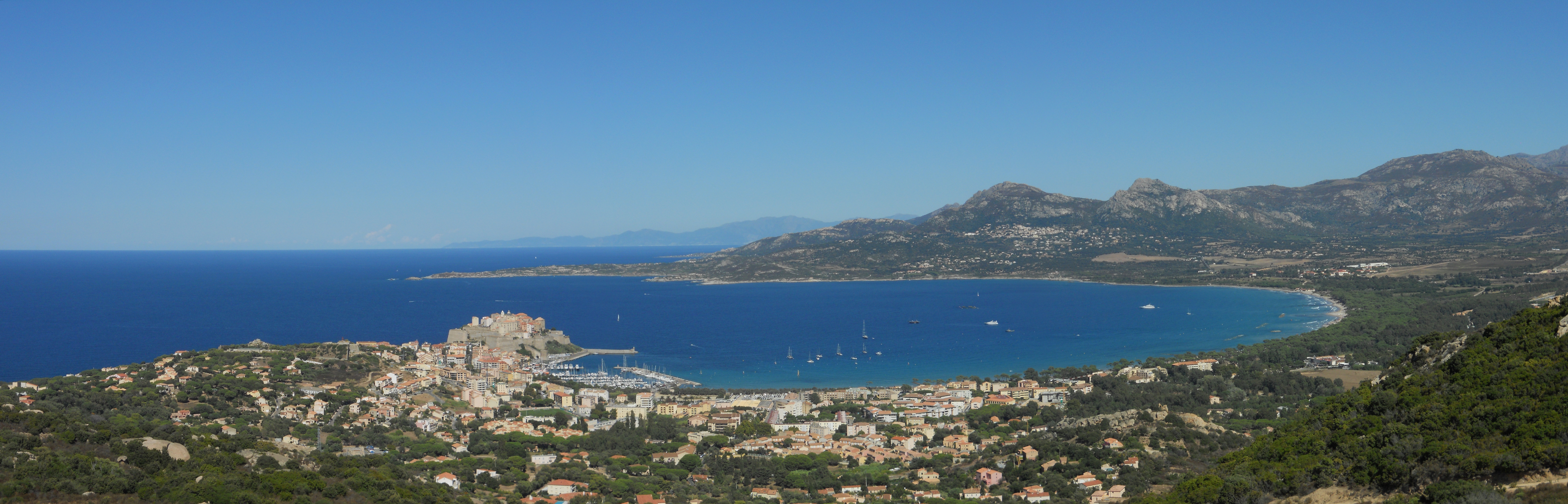 View of Calvi (Corse)